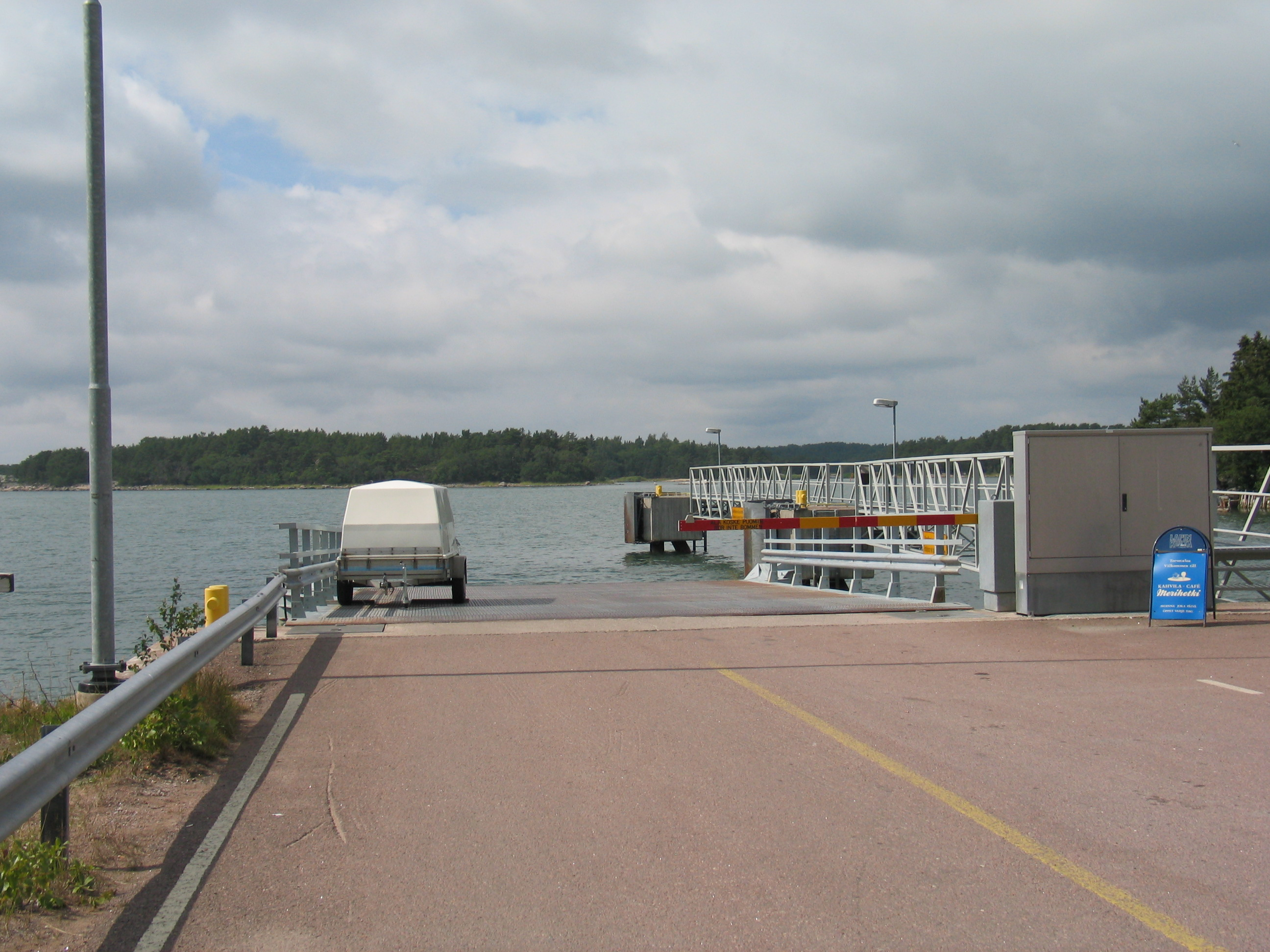 Port to Iniö